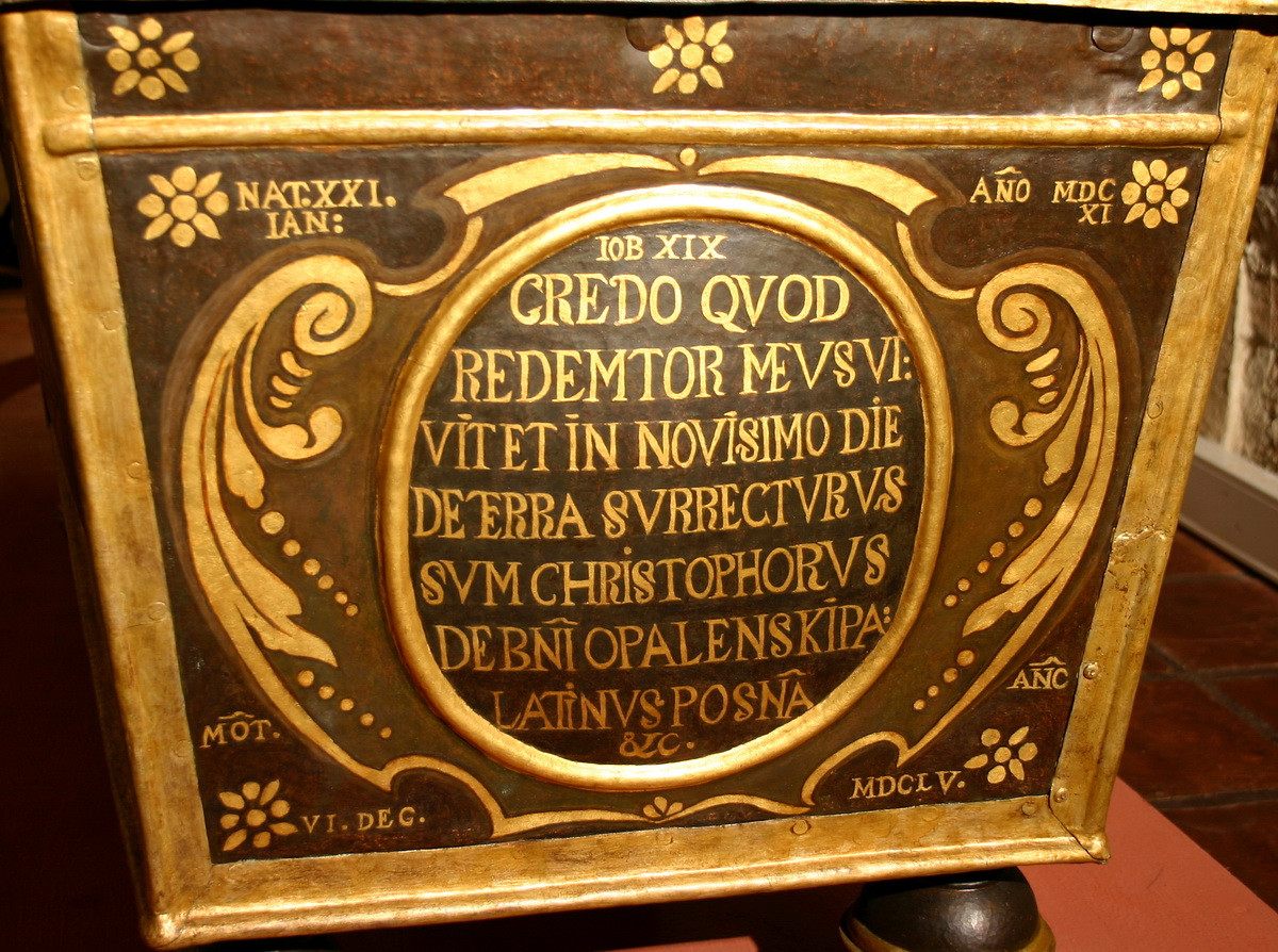 Krzysztof Opalinski Sarcophagus with date of the birth and of death: NAT. XXI Jan. MDCXI(1611-01-21) MOT. VI DEC. MDCLV (1655-12-6), Sieraków, Museum Opalinski Castle